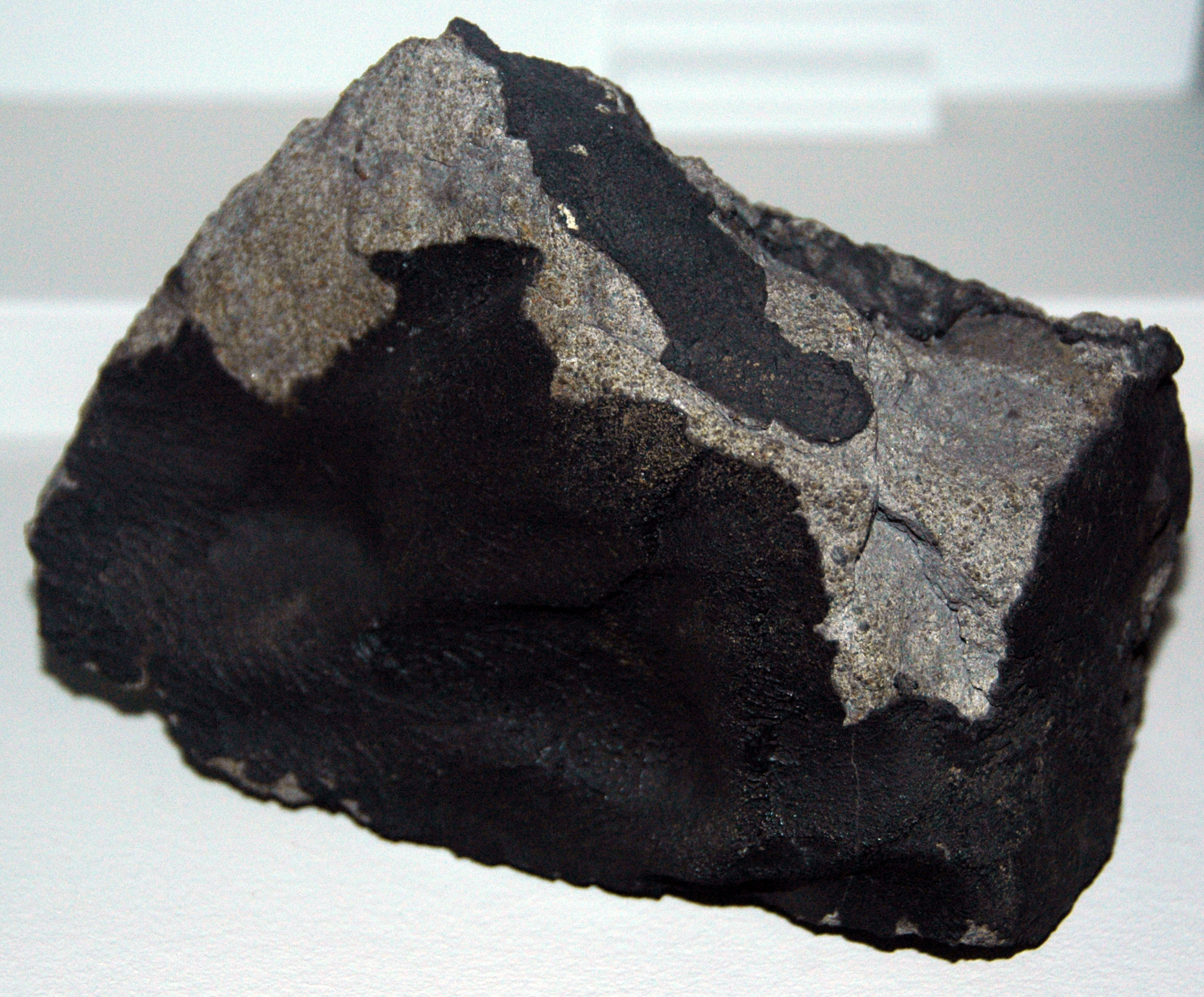 Ochansk Meteorite - a fusion-crusted H4 chondrite found in 1887 in Russia (FMNH Me 1442, Field Museum of Natural History, Chicago, Illinois, USA).